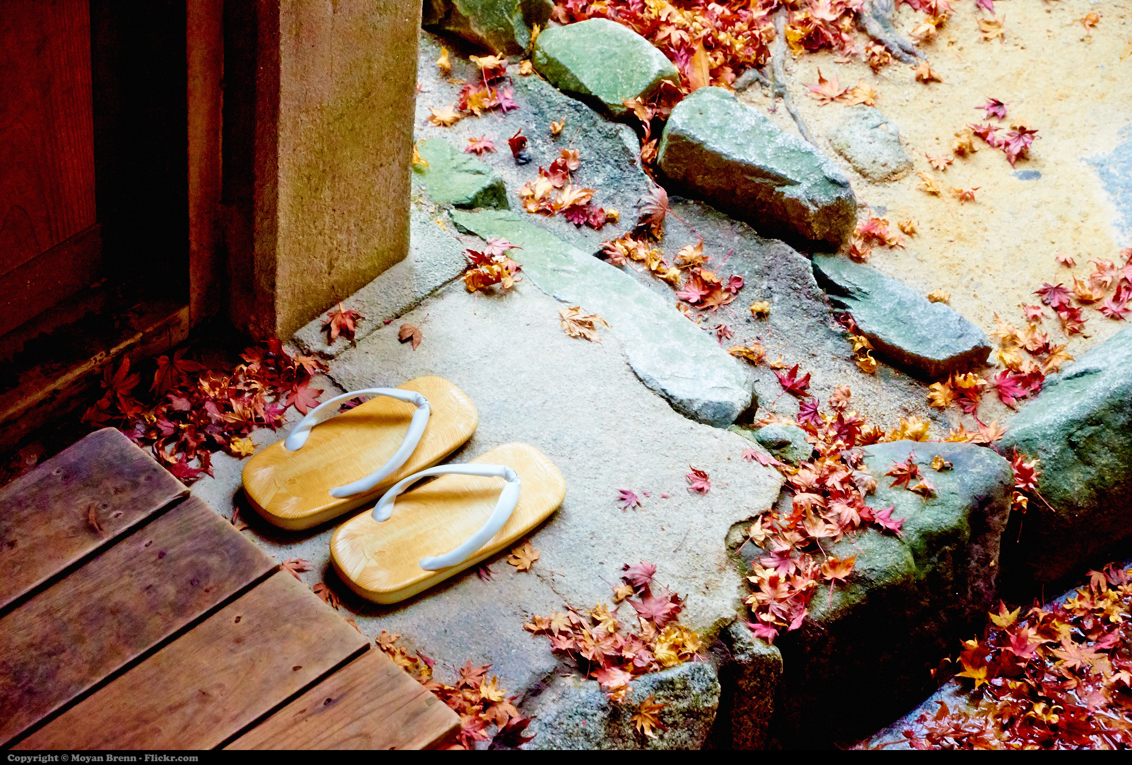 Typical japanese zori inside a Buddhist temple called Shorinin in Ohara, north east of Kyoto, Japan